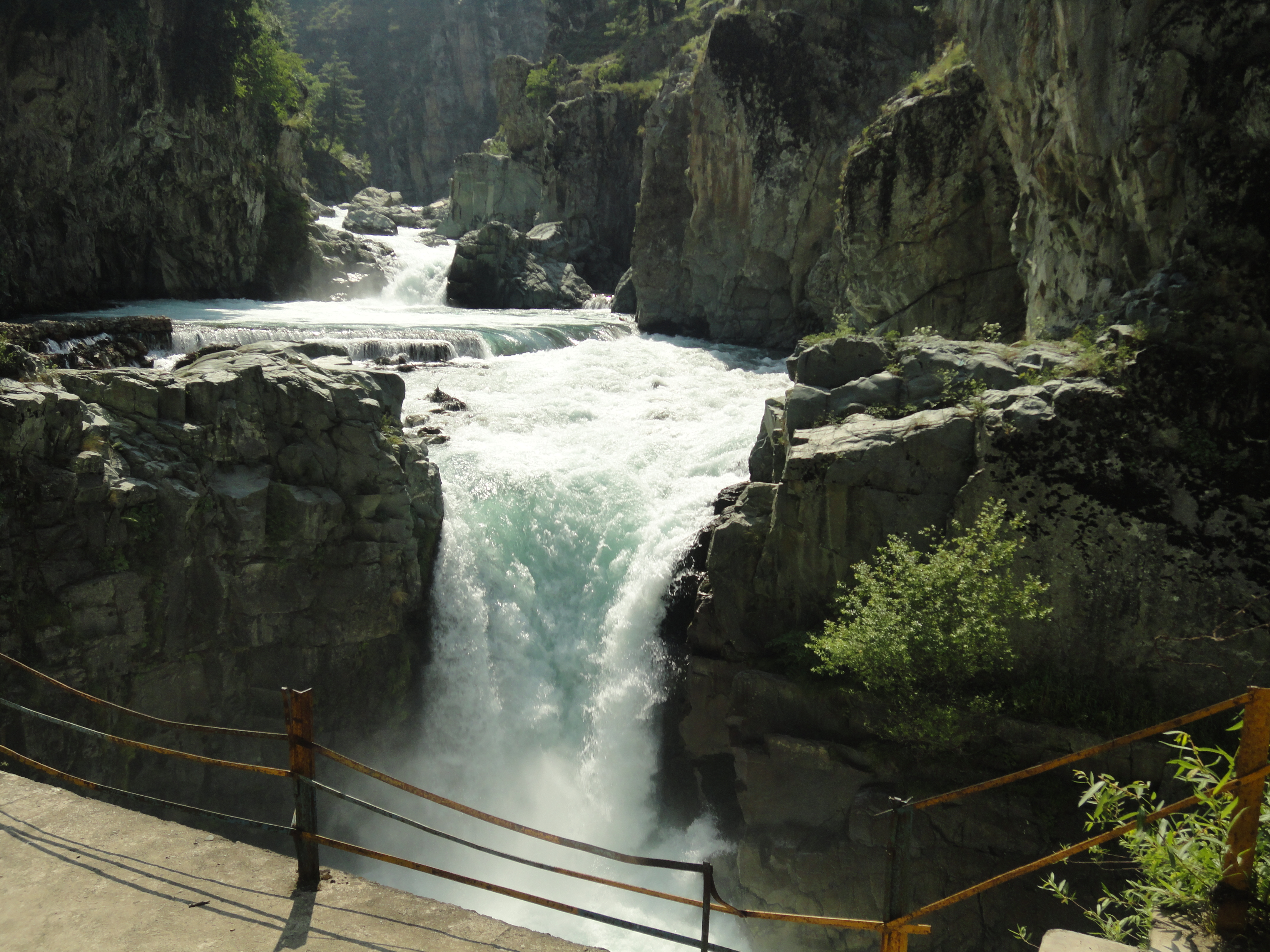 This is a picture of waterfall of Aharbal in Shopian District of state of Jammu and Kashmir, India.